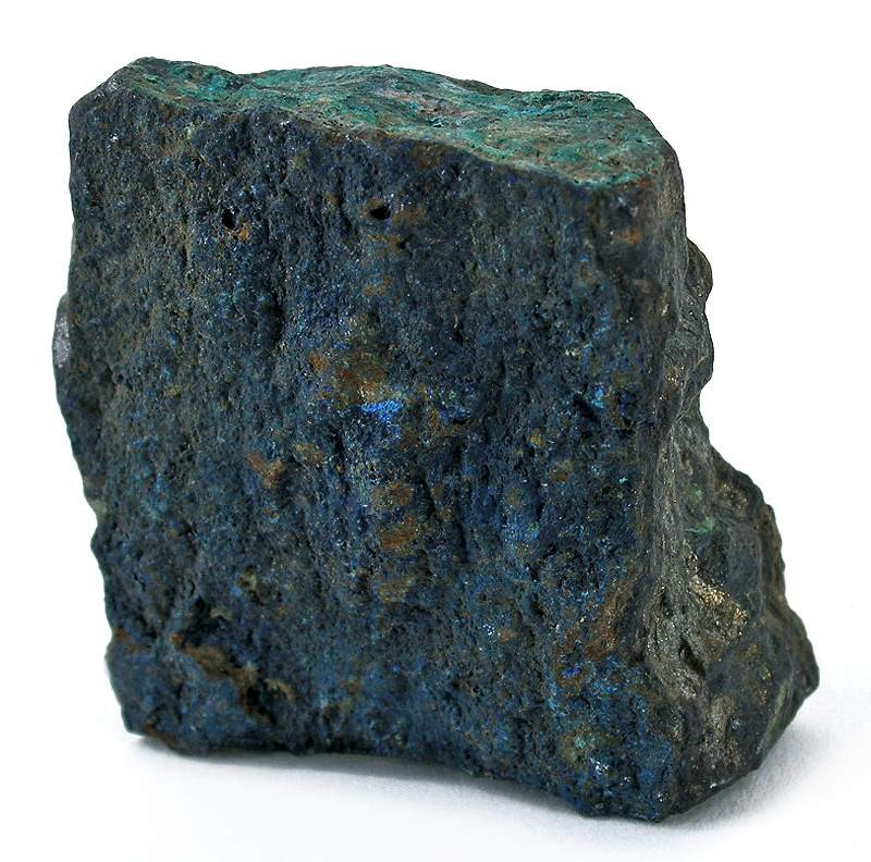 Umangite, Clausthalite Locality: Sierra de Cacheuta, Mendoza, Argentina (Locality at ) Size: 4.2 x 3.8 x 1.3 cm. There is a lot more than clausthalite in here. I am told that if you have purple (and you do, visible, here), you have umangite; and it’s a good bet there is klockmannite as well, and potentially all kinds of other good things. This specimen also contains Copper selenides because of the green secondaries. The non-metallic blue on there is likely chalcomenite, in fact. These specimens were presented to the academy by Casimiro Domeyko, who did much work on the rare minerals of Chile and Argentina. Ex. Academy of Natural Sciences Philadelphia Collection.